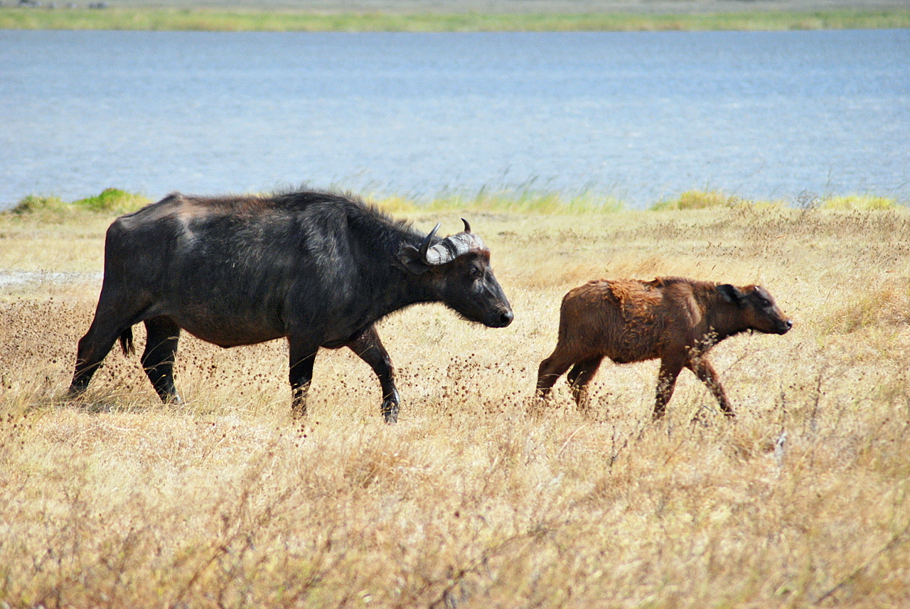 Cape Buffalo and calf, Ngorongoro Conservation Area, Tanzania